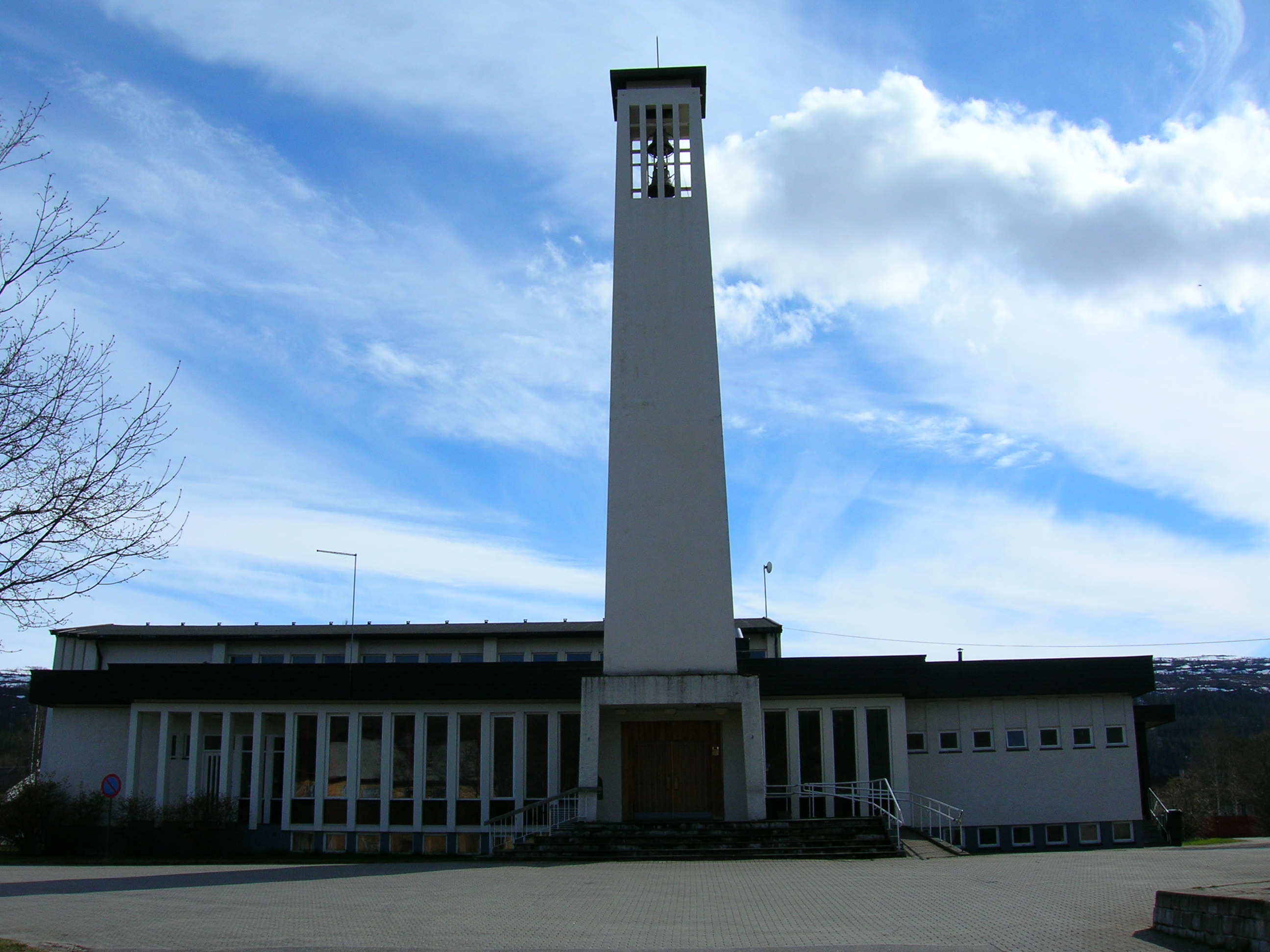 Gruben church, Rana municipality, Nordland, Norway, Photo May 14, 2007 with a Nikon Coolpix 5600 5,1 Megapixel camera.